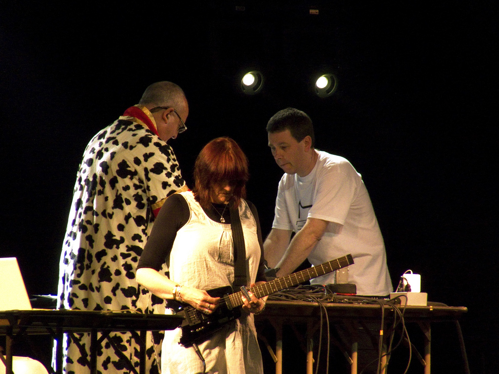 Throbbing Gristle in 2008.